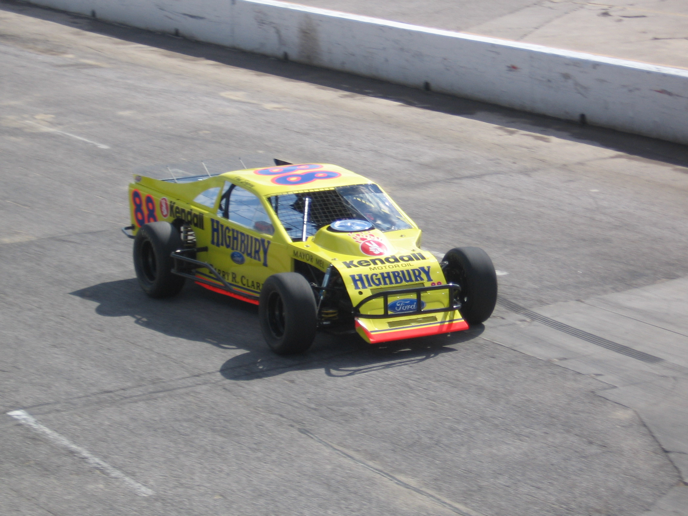 Photo taken by myself at Delaware Speedway in 2006.